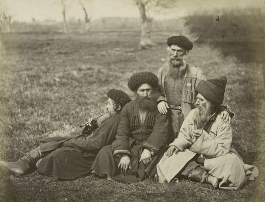 Caucasus. Jews. Image description: Kavkaz. Evrei.